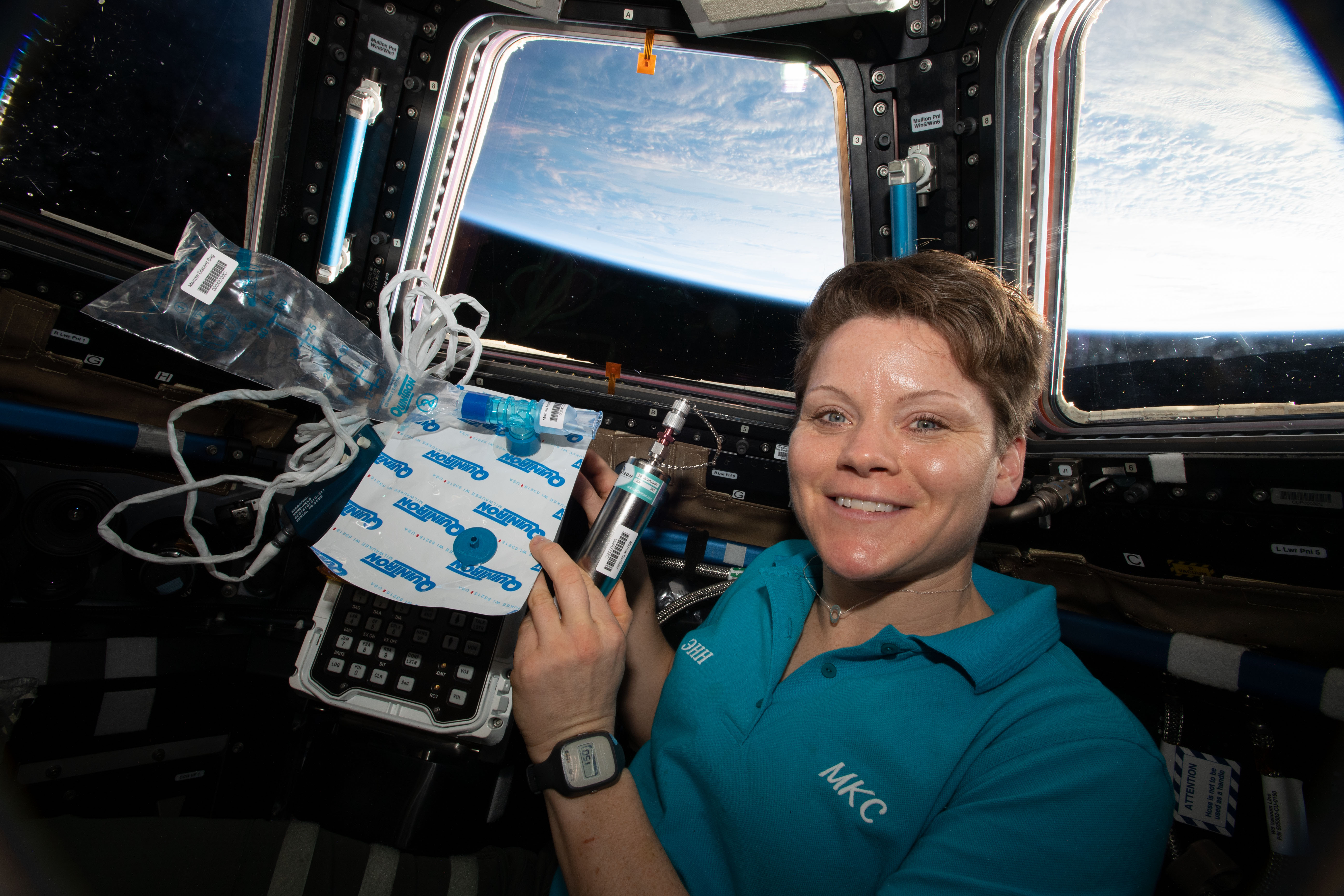 Expedition 58 Flight Engineer Anne McClain of NASA is pictured in the cupola holding biomedical gear for the Marrow experiment. The study measures fat changes in the bone marrow before, and after exposure to microgravity. In addition, this investigation measures specific changes of red and white blood cell functions. Bone marrow fat is measured using magnetic resonance. Red blood cell function is measured with a breath sample analyzed with a gas chromatograph, and white blood cell function is studied through their genetic expression.